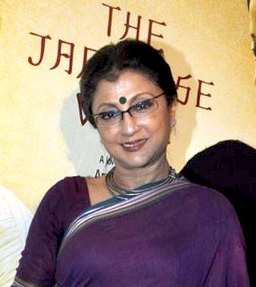 The Japanese Wife - Meet